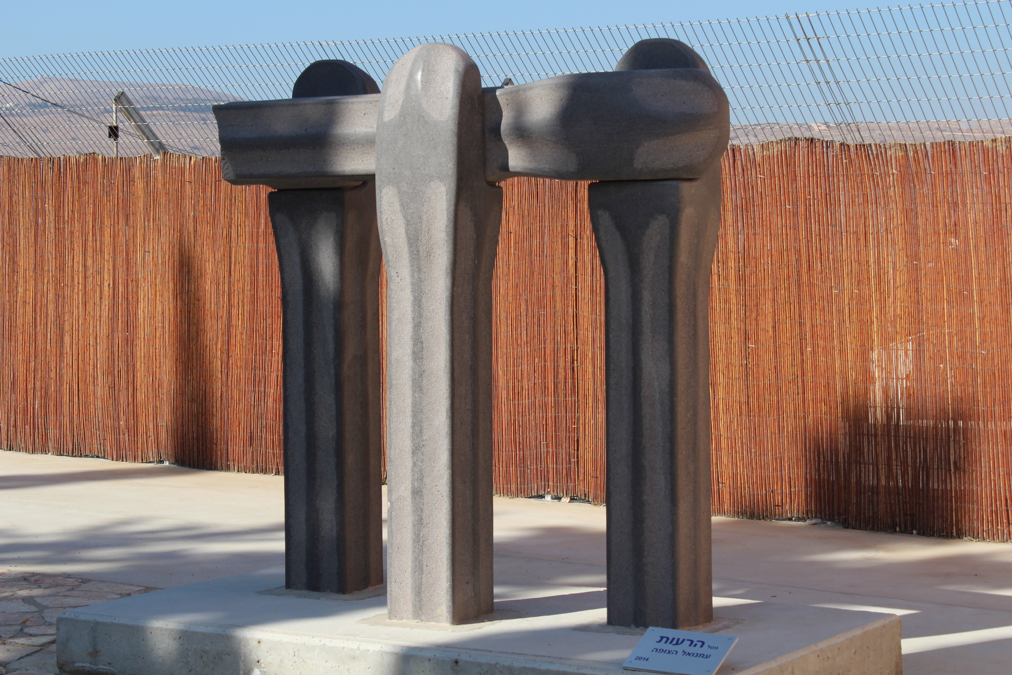 Metzudat Koach The site's ID in Wiki Loves Monuments photographic competition is 6-0372-001